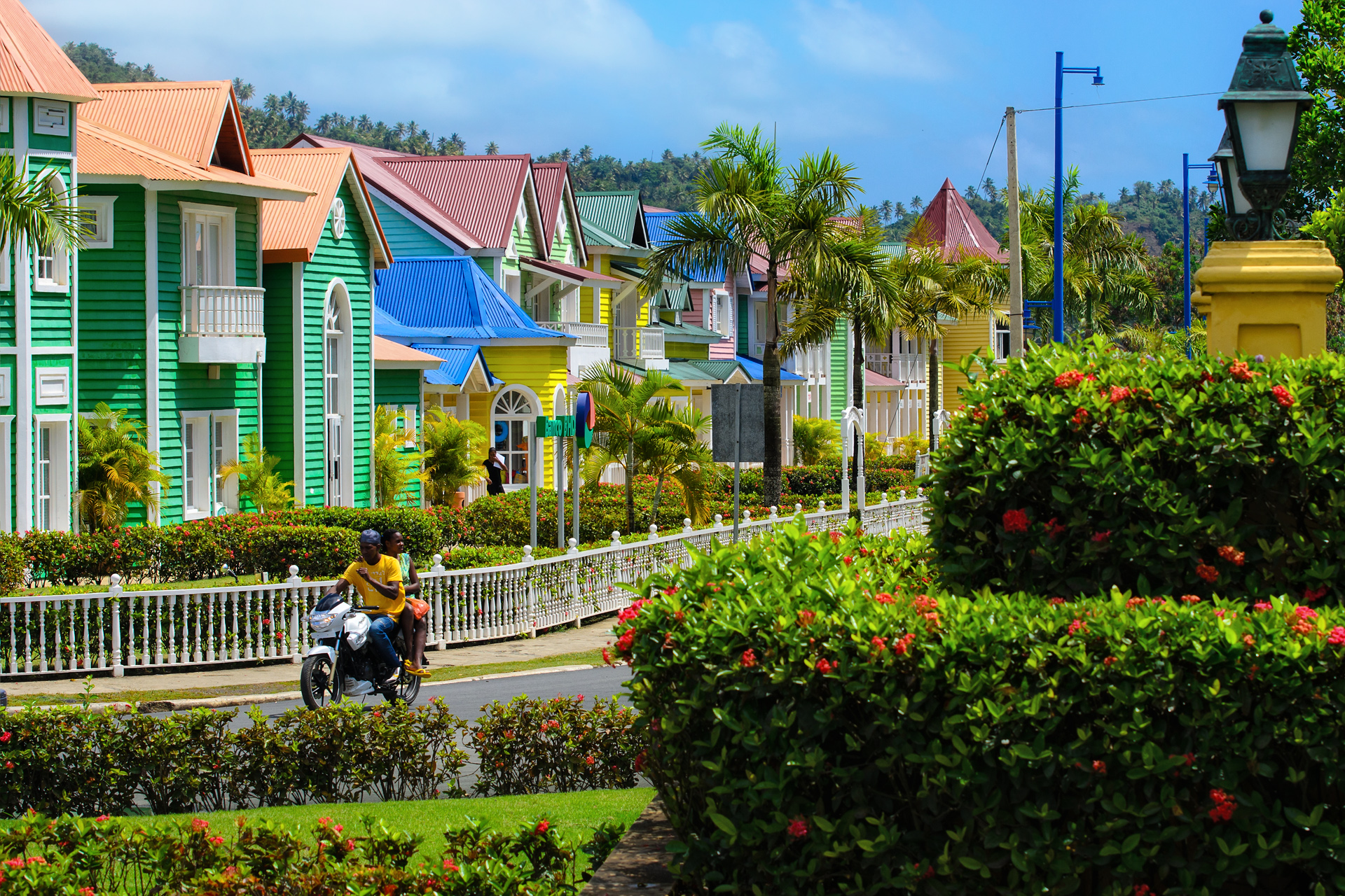 Santa Barbara de Samaná one of the main streets